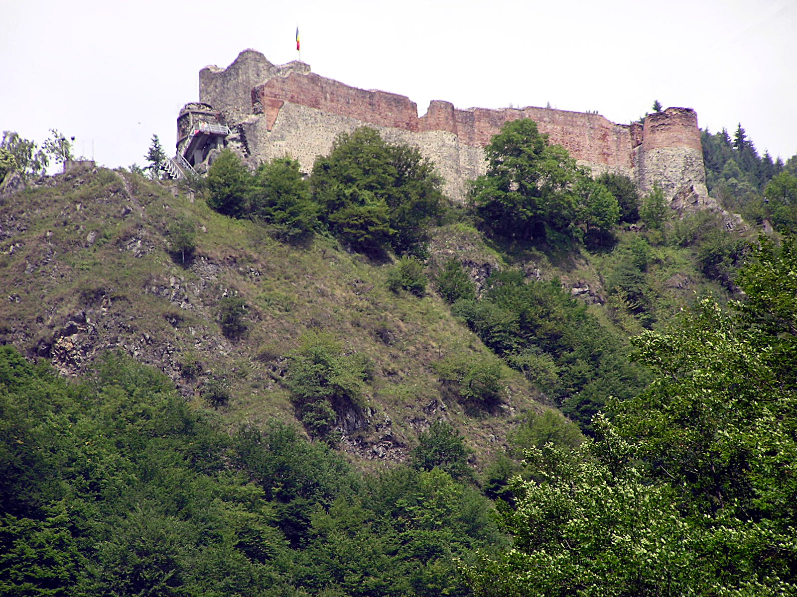 Poenari Castle in Argeş County, Romania